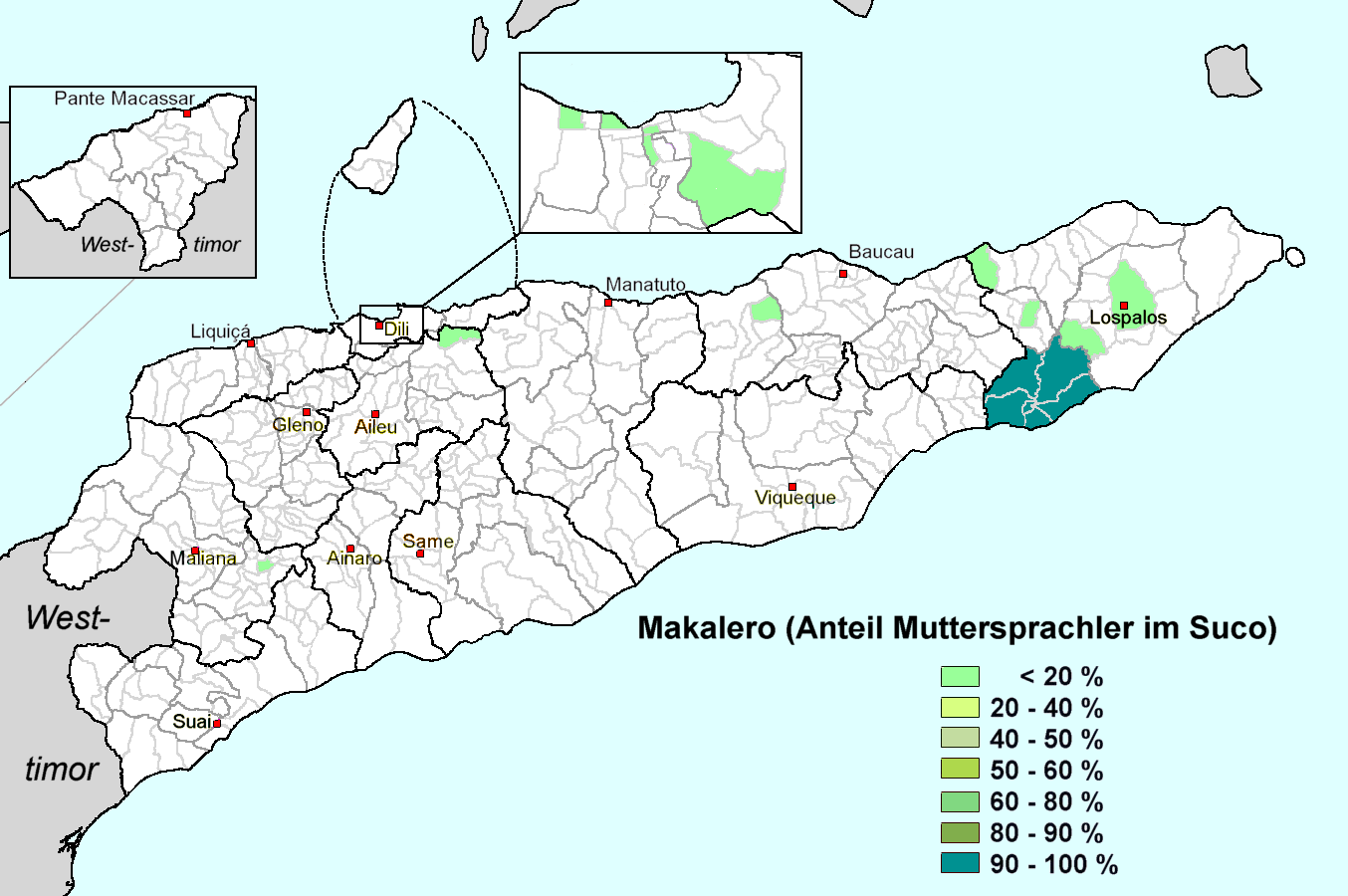 Percentage of people using Makalero as mother tongue in sucos of East Timor (Timor-Leste), according census 2010